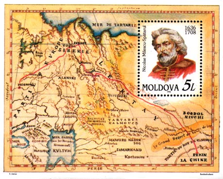 A souvenir sheet of Moldavia, Nicolae Milescu-Spătaru, Portrait of the writer (1636-1708), 2002